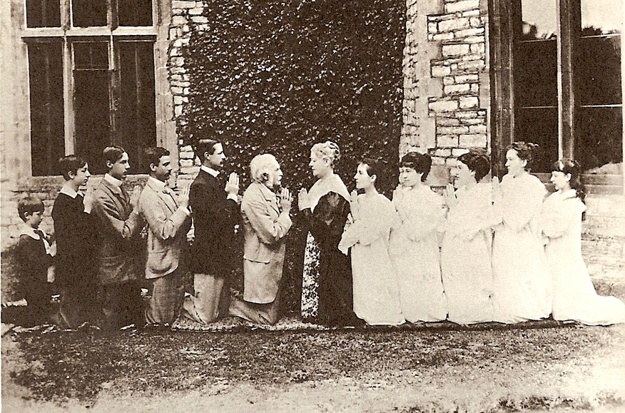 Family of Sir Richard Strachey and Lady Strachey posing to form a medallion. Left to right: James, Lytton, Oliver, Ralph, Dick, sir Richard, Lady Strachey, Elinor, Dorothea, Philippa, Joan Pernel, Marjorie.